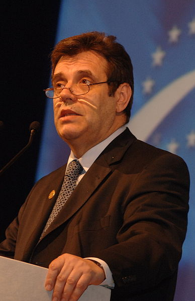 EPP Congress Rome 2006